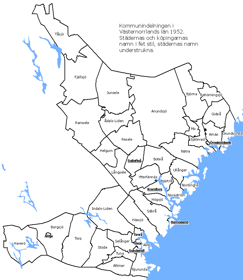 Municipalities of Västernorrland County 1952.